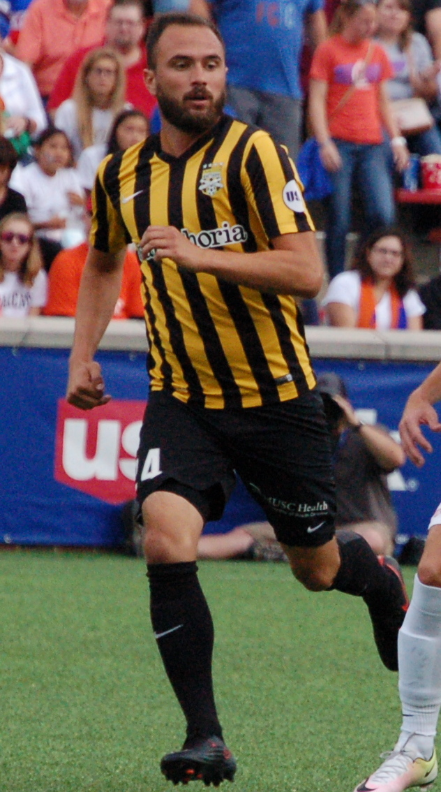 Zachary Prince, Eric Stevenson, Sean Okoli Taken during a 2016 USL Playoffs Eastern Conference Quarterfinals match between FC Cincinnati and Charleston Battery at Nippert Stadium in Cincinnati on October 2, 2016.